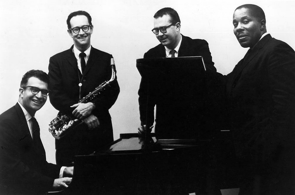 Photo of the Dave Brubeck Quartet. From left: Dave Brubeck, Paul Desmond, Joe Morello and Gene Wright.